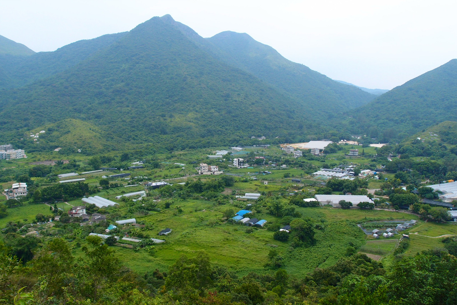 鶴藪村，攝自鶴藪郊遊徑